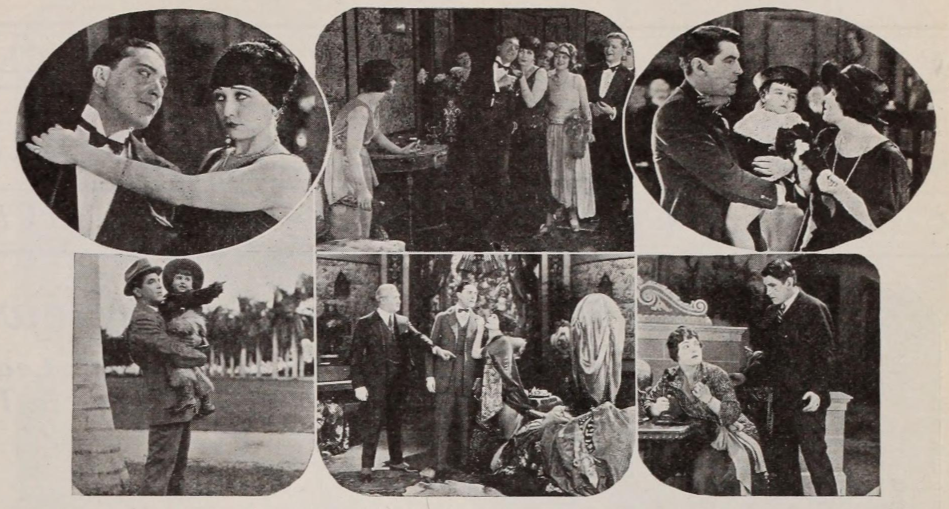 A collage of film stills, depicting various scenes from the 1923 film The Net, as used in contemporary advertising